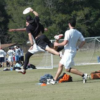 Jarret Bowen lays out for the disc at UNC-Wilmington in October, 2007.